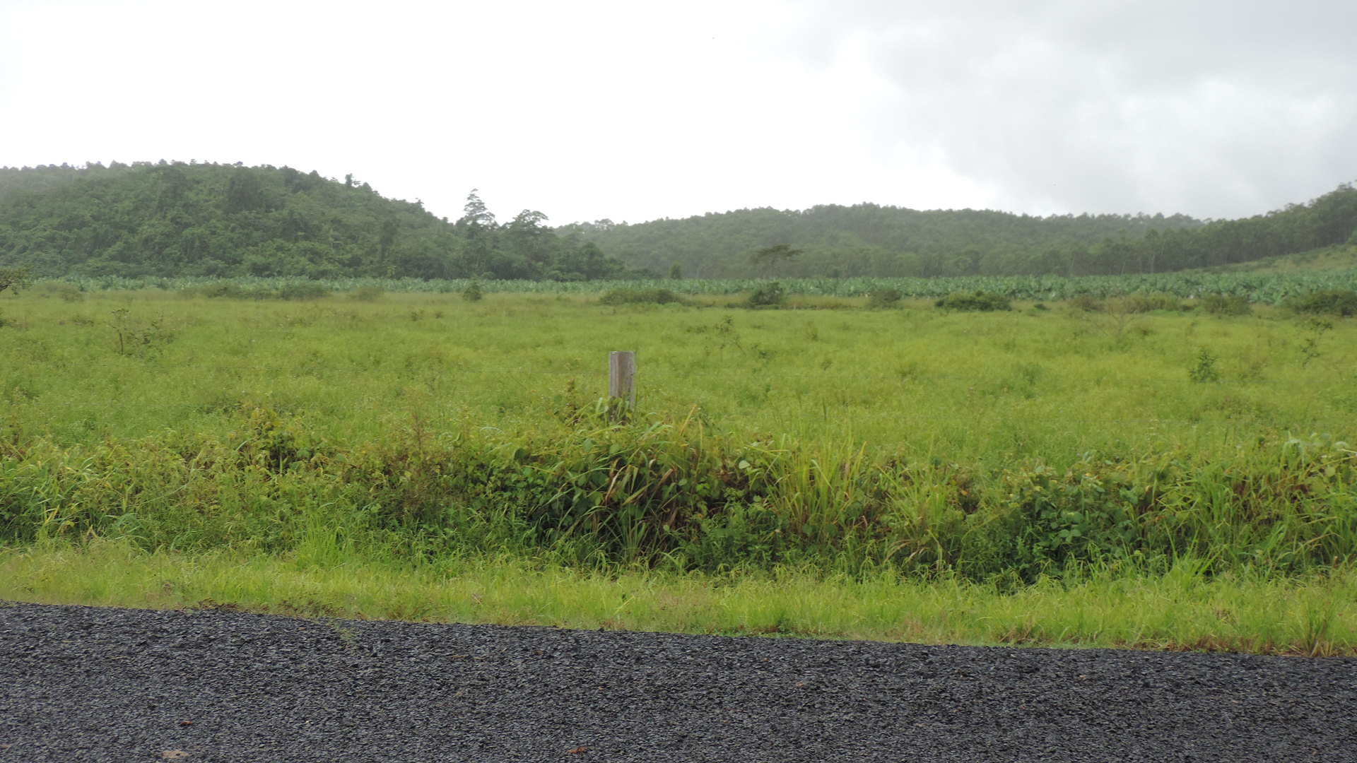 Grazing land and banana fields, Waugh Pocket, 2018